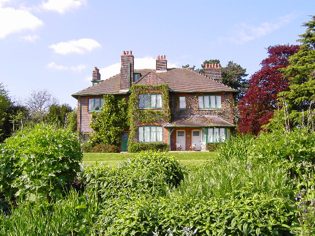 Shaw's Corner. Home of George Bernard Shaw from 1906 to 1950